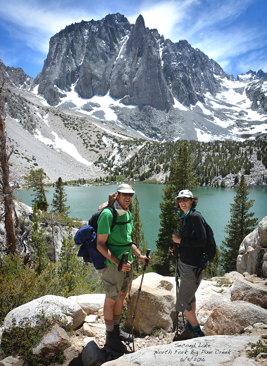 Authors Jerry and Janine Sprout, glacier-fed Second Lake, Big Pine, California